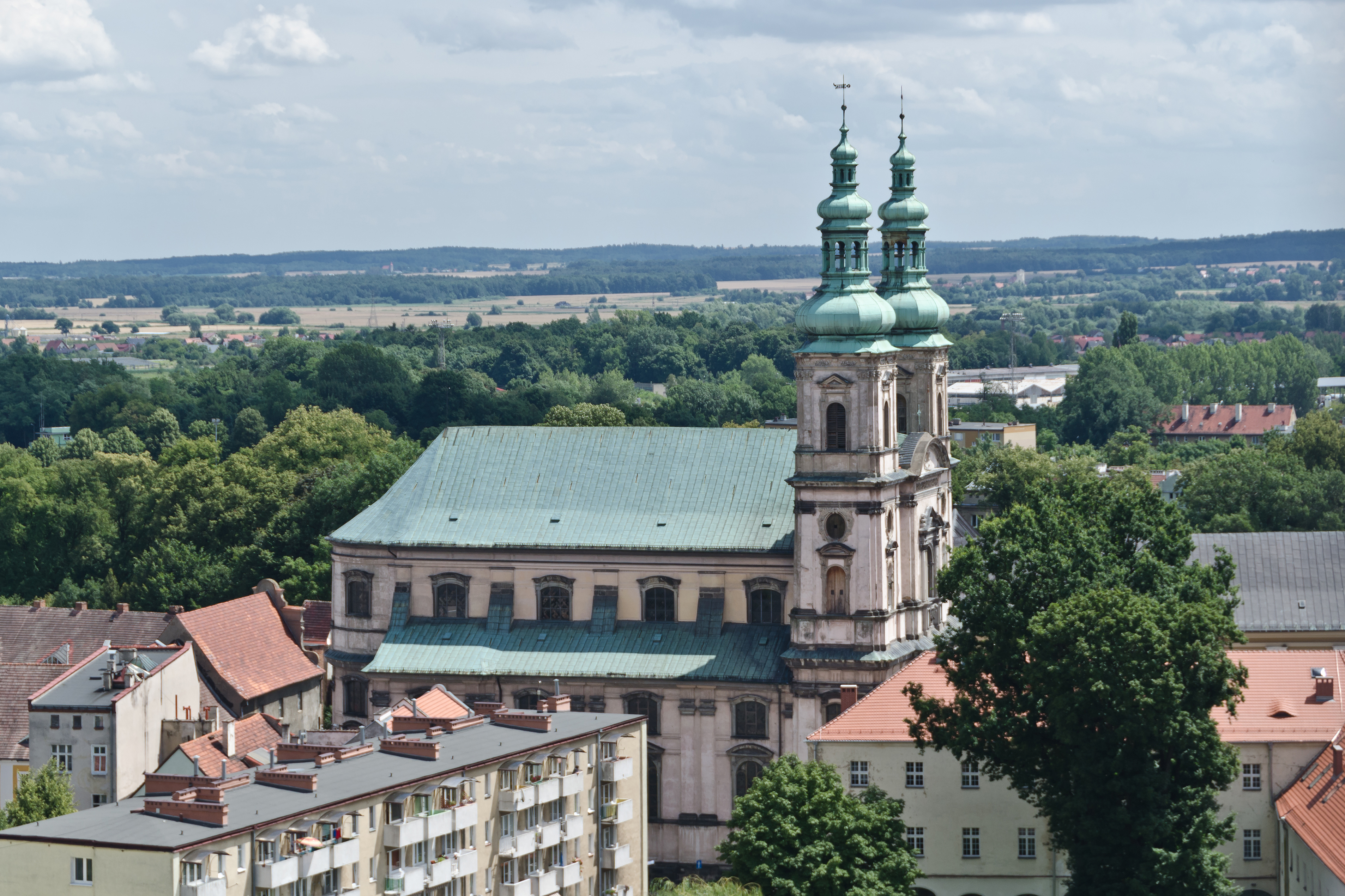 Church of the Assumption of Holy Virgin Mary in Nysa